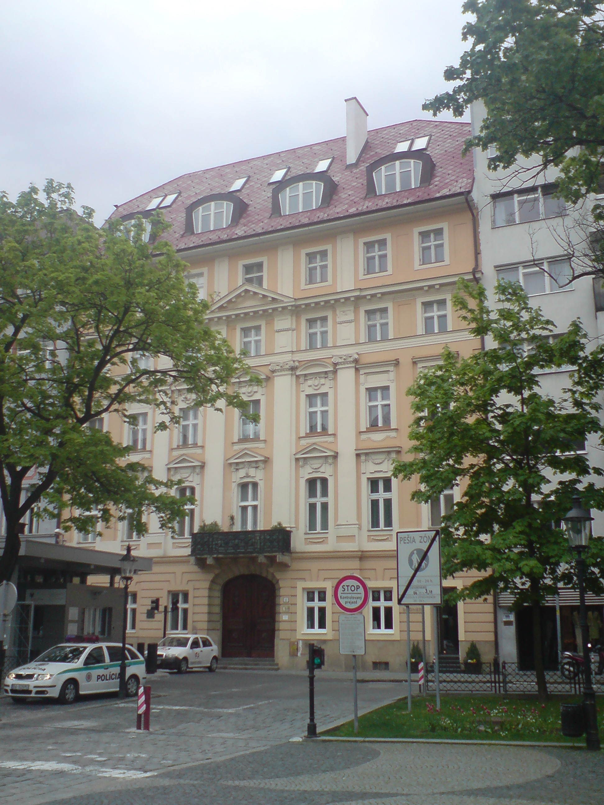 Csomov palác, Hviezdoslavovo námestie, Bratislava This medium shows the protected monument with the number 101-36/0 in the Slovak Republic.